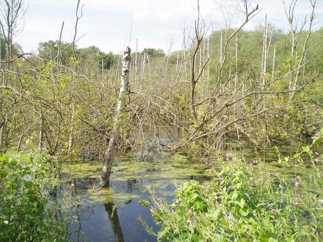 Oxton bogs The upper lake is very overgrown